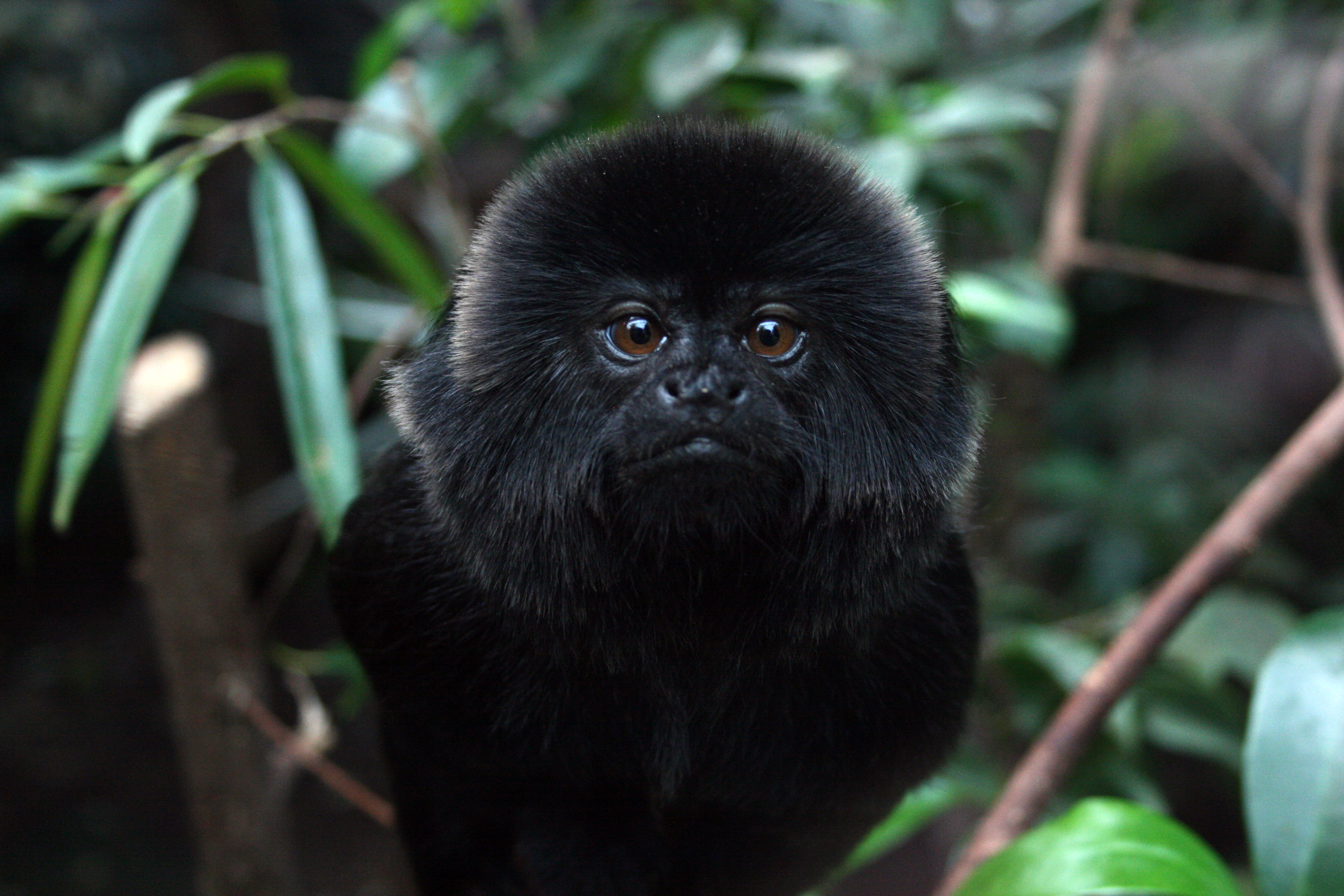 Goeldi's Marmoset taken at The Living Rain Forest in Berkshire UK.